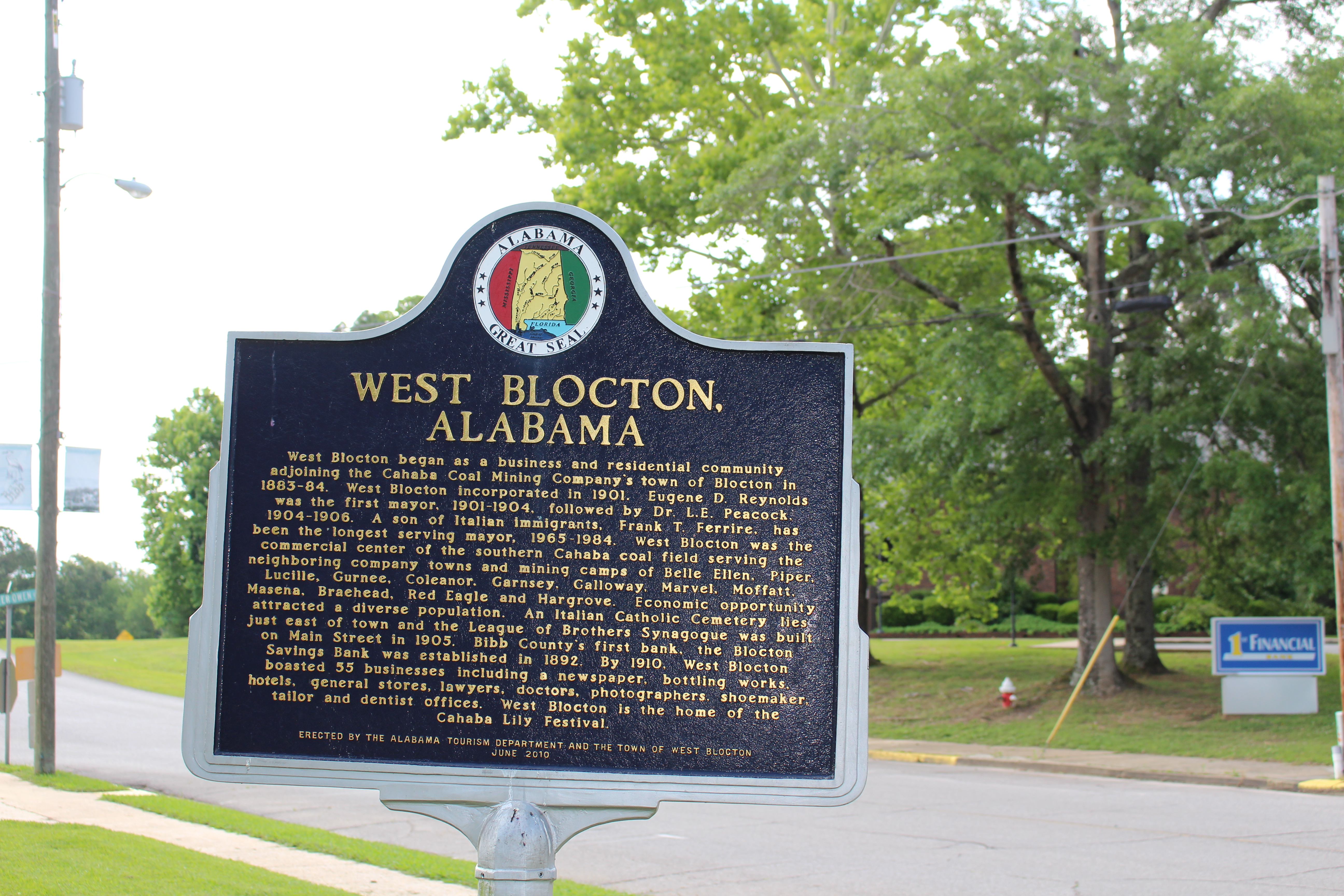 West Blocton began as a business and residential community adjoining the Cahaba Coal Mining Comopany's town of Blocton in 1883-84. The town has a vital history to the state of Alabama and continues to celebrate its heritage with the Cahaba Lily Festival and Coke Ovens Park.